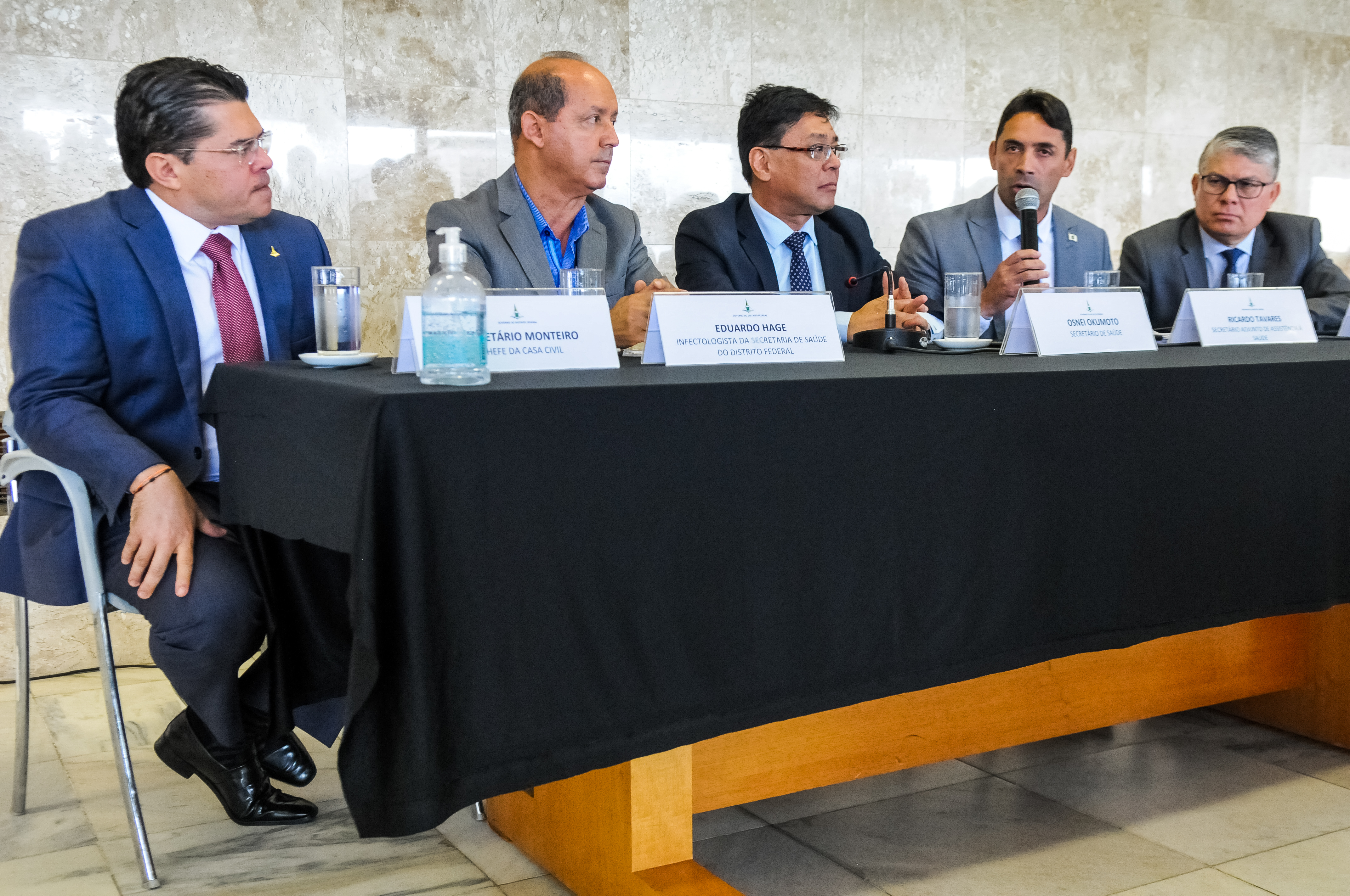 Durante coletiva no Buriti, foram atualizadas as informações sobre o panorama do coronavírus. Com insumos do governo federal, DF poderá fazer diagnósticos, na foto o secretário de Saúde, Osnei Okumoto; o secretário-adjunto de Saúde, Ricardo Tavares; o presidente do Instituto de Gestão Estratégica de Saúde do DF (Iges-DF), Francisco Araújo; o infectologista Eduardo Hage e o chefe da Casa Civil, Valdetário Monteiro. Foto: Paulo H Carvalho / Agência Brasília